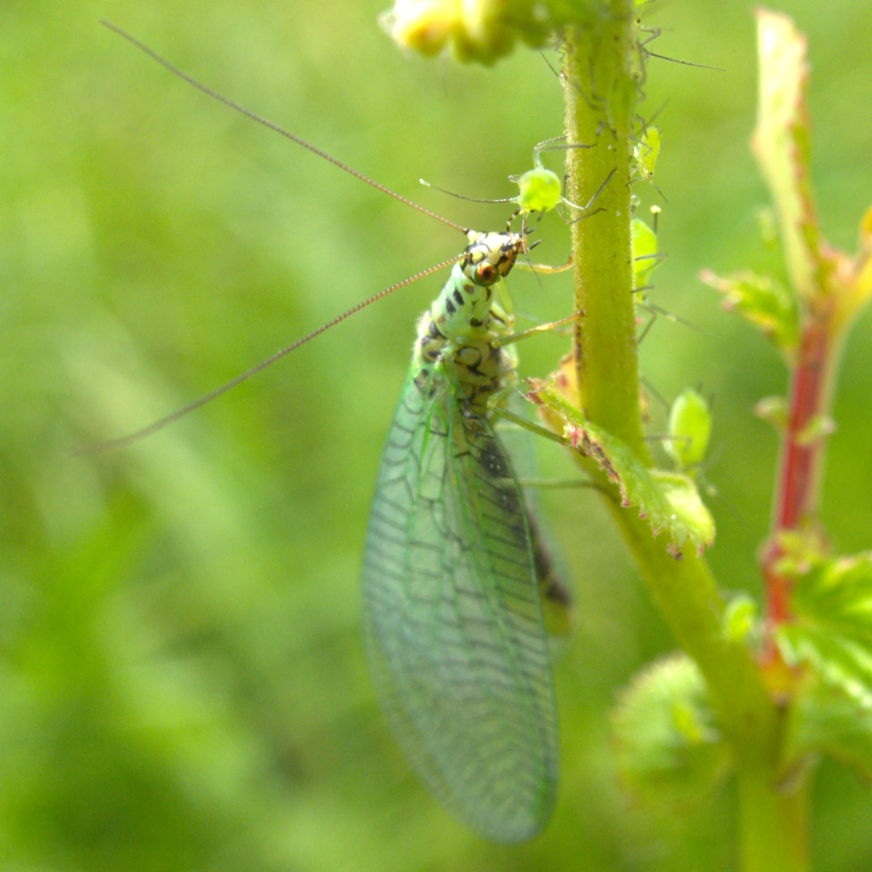 Name: Chrysopa perla. Family: Chrysopidae. Location: Münster, NRW, Germany